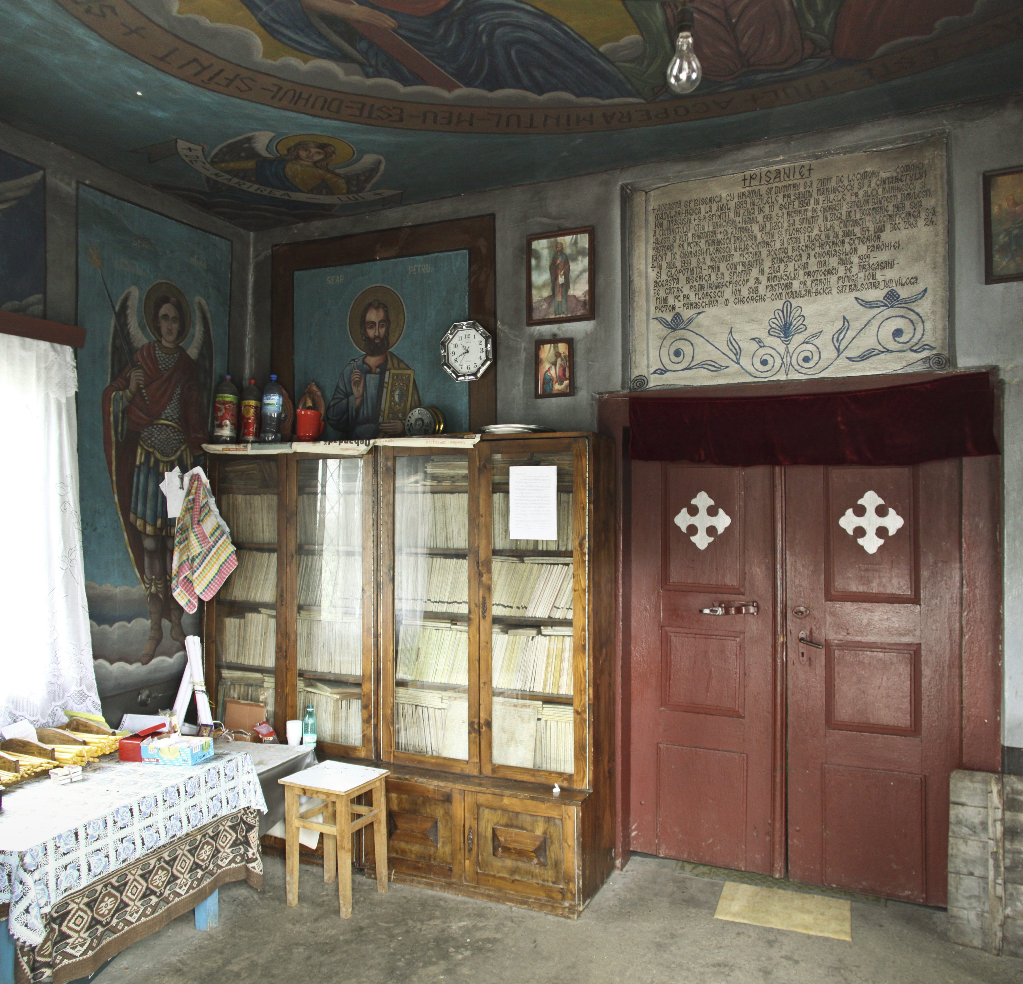 Dimuleşti, Vâlcea county, Romania: the wooden church.